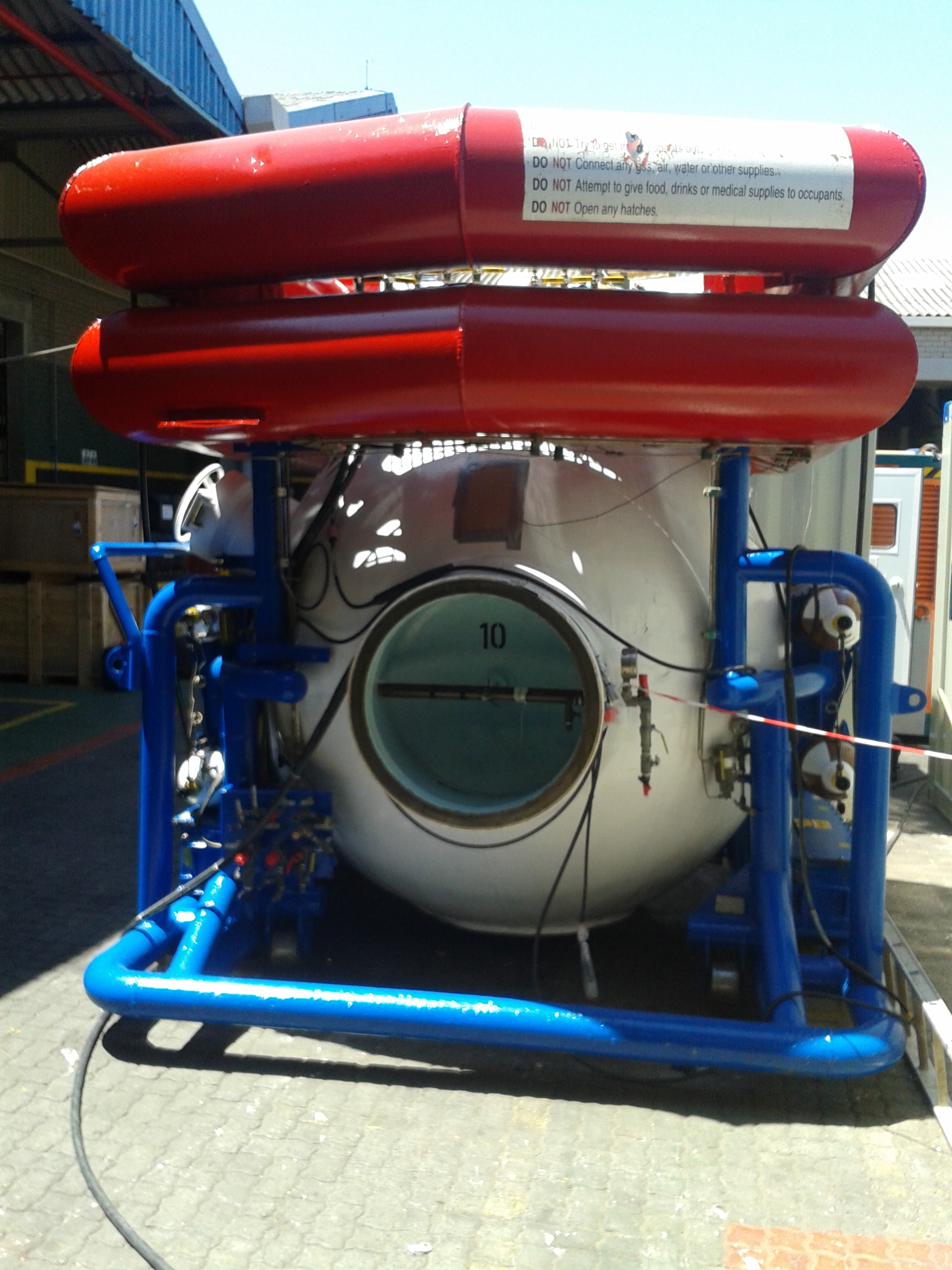 Small hyperbaric escape module being tested for leaks